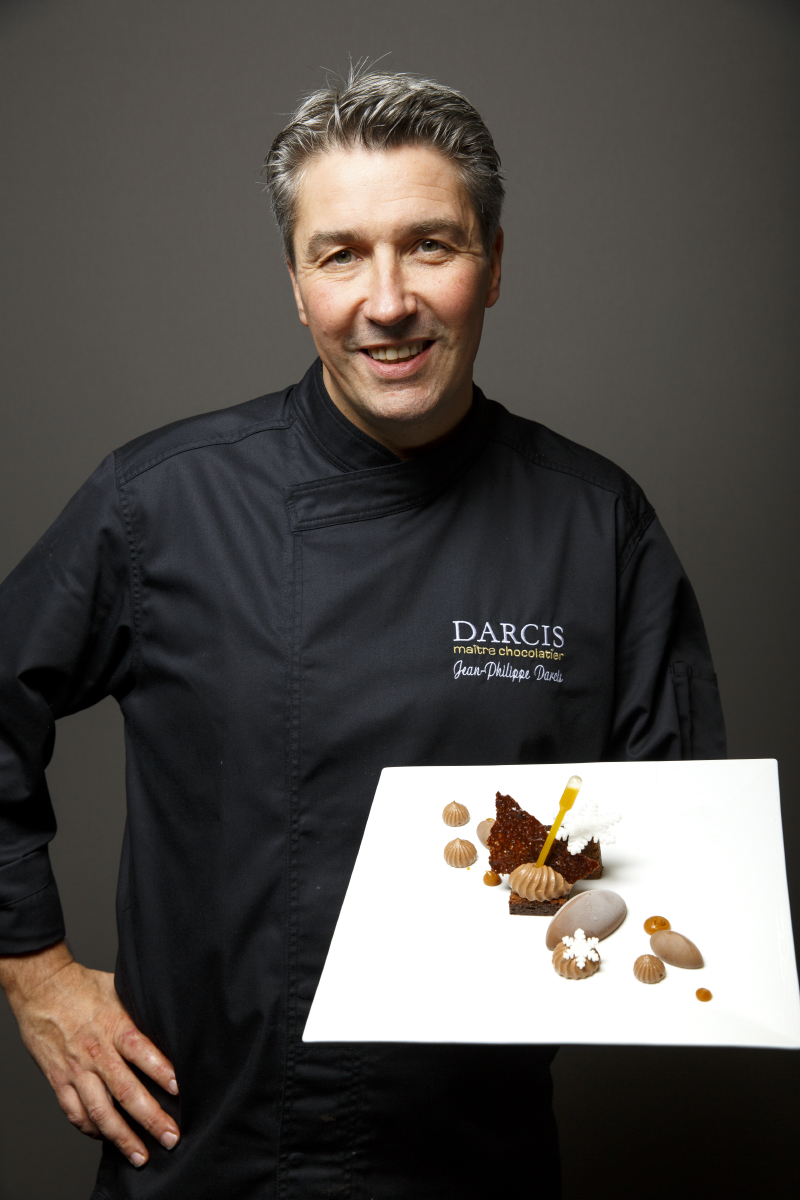 ThomasRaffoux